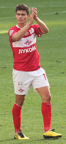 Alex Raphael Meschini